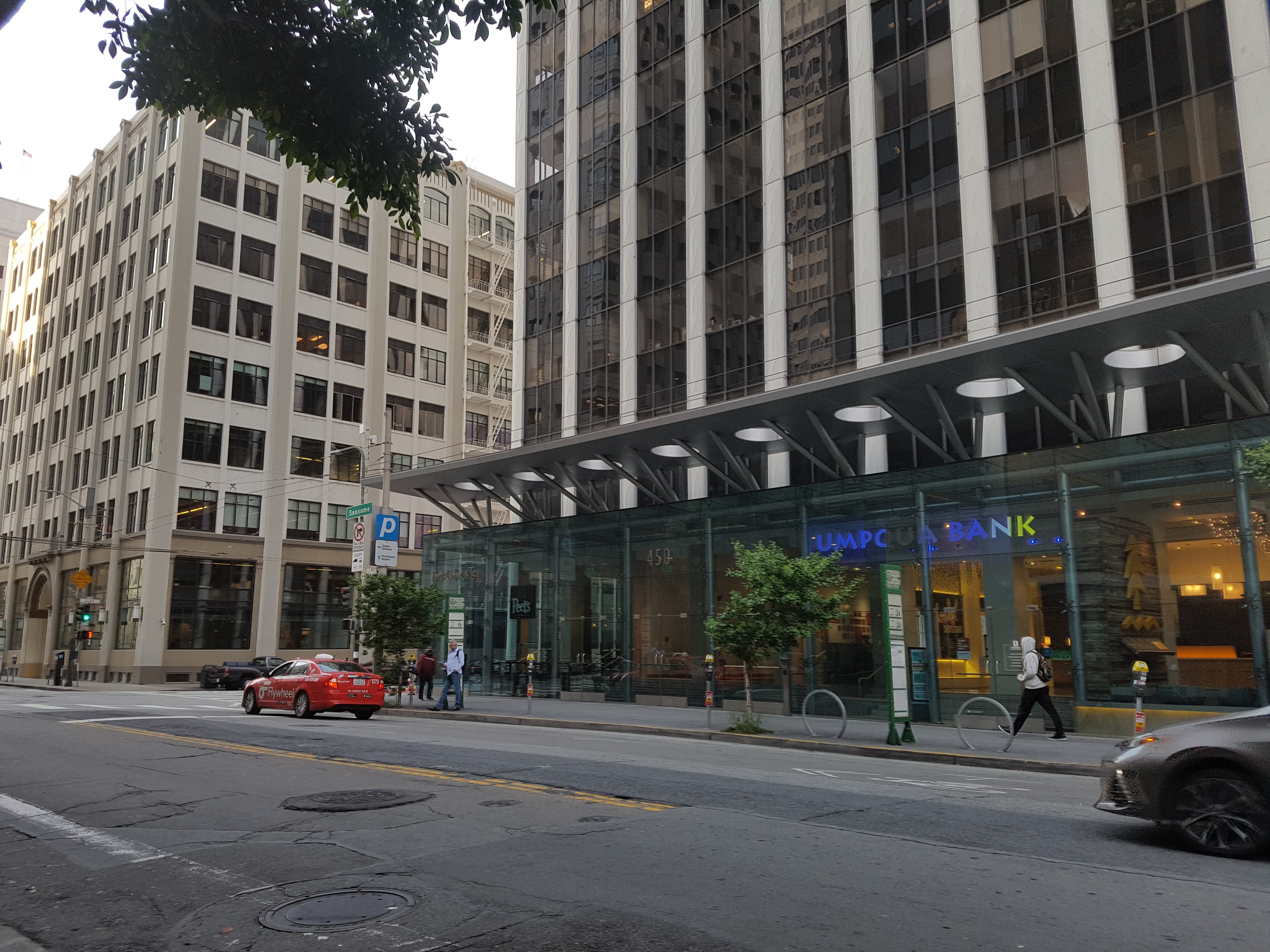 Sillajen biotherapeutics 450 Sansome St #200, San Francisco, CA 94111